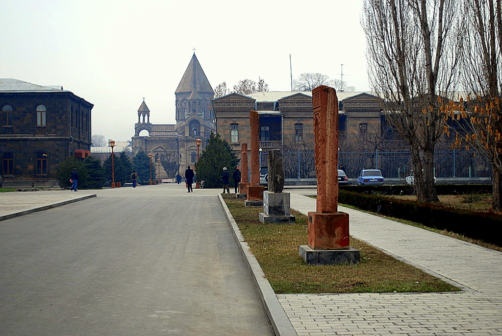 Holy Echmiadzin and Yeremian cells, Vagahsrhapat.